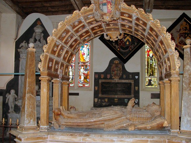 All Saints' parish church, Spetchley, Worcestershire, England. Monument to Sir Rowland Berkley (died 1611) and his wife, under an arched canopy with obelisks at the four corners. The church and the park is still owned by Berkley family.